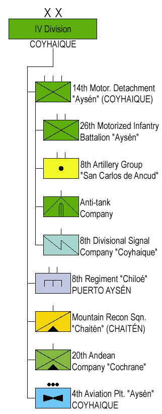 4. Division del Ejército de Chile